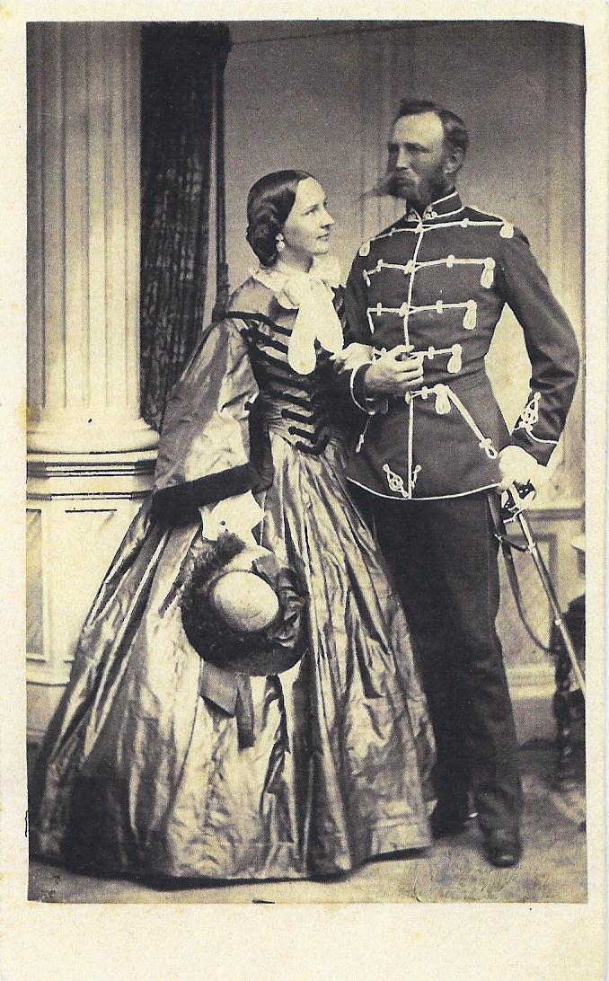 Picture showing the German authoress Auguste von der Decken ("A. von der Elbe") and her husband Hieronimus von der Decken in 1861. Woman is wearing full-skirted dress, while the man is in formal military uniform with stiff mustachios.